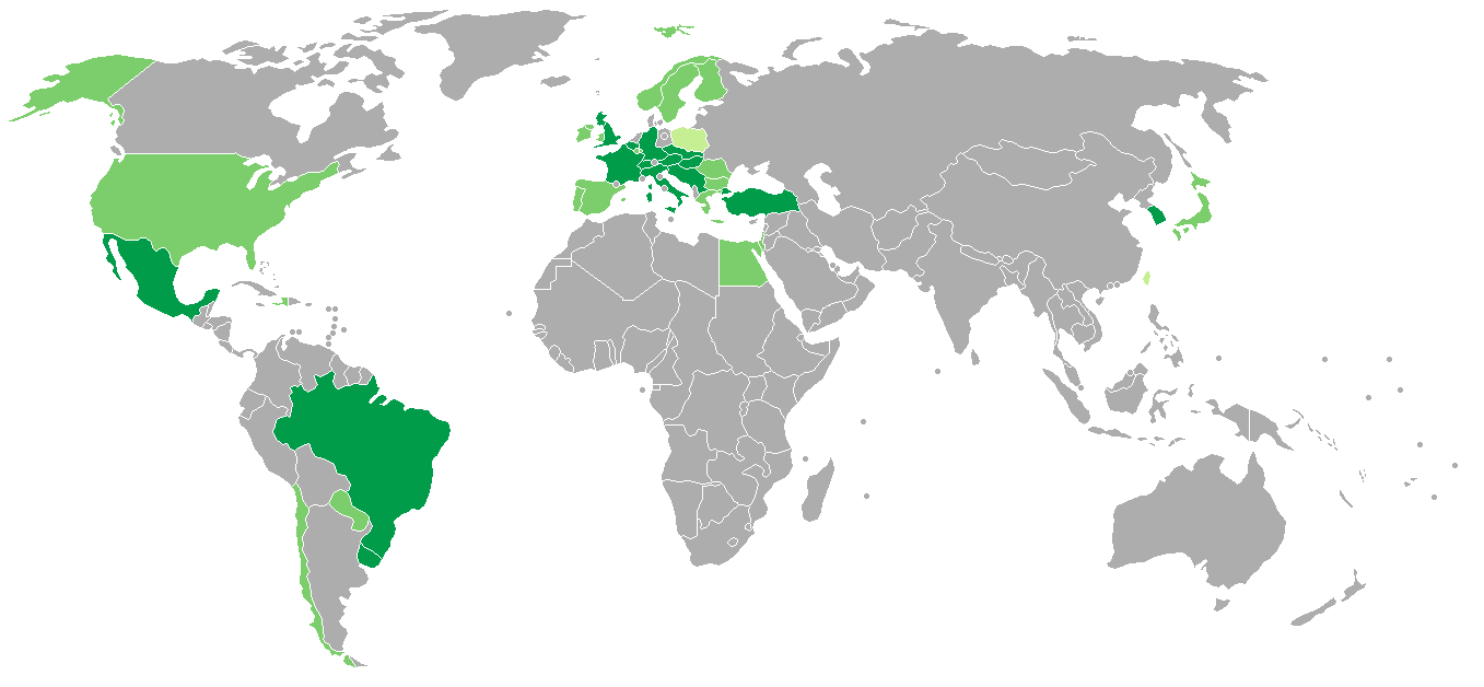 Qualification for the 1954 FIFA World Cup Country didn't participate Country withdrawed or entry didn't accepted by FIFA Country participated in the qualification tournament Country qualified to the finals